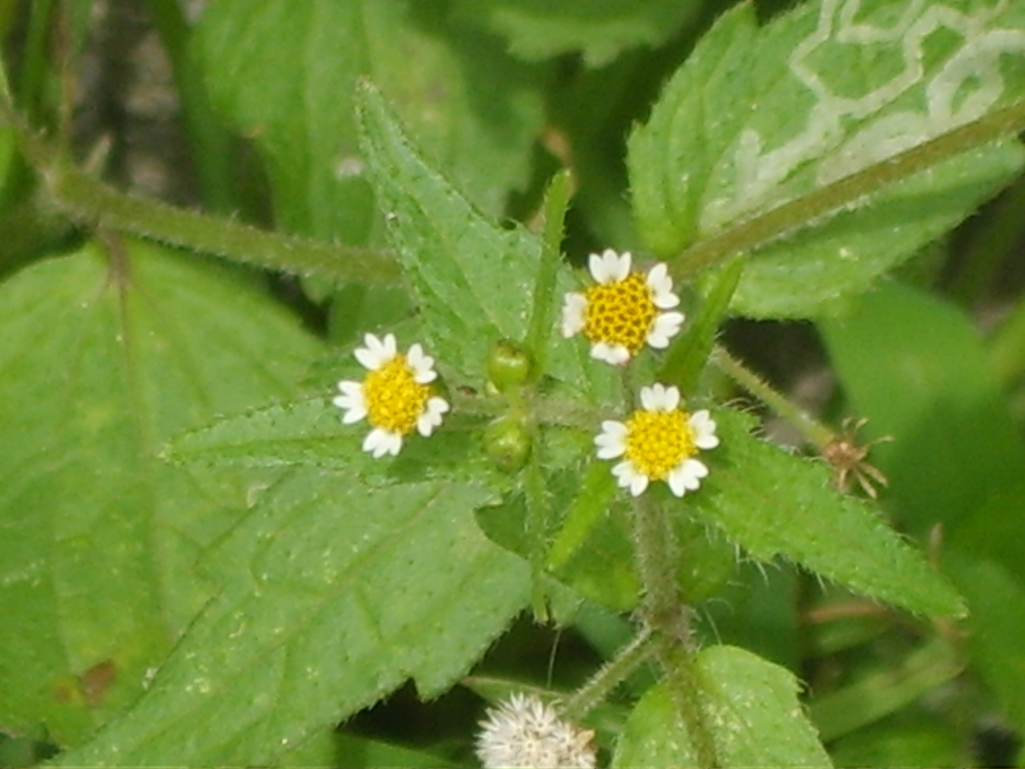 Galinsoga quadriradiata in Bupyung, Korea